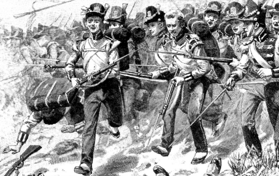 Charge à la baïonnette du 48e régiment de ligne britannique à la bataille de Talavera, 1809.